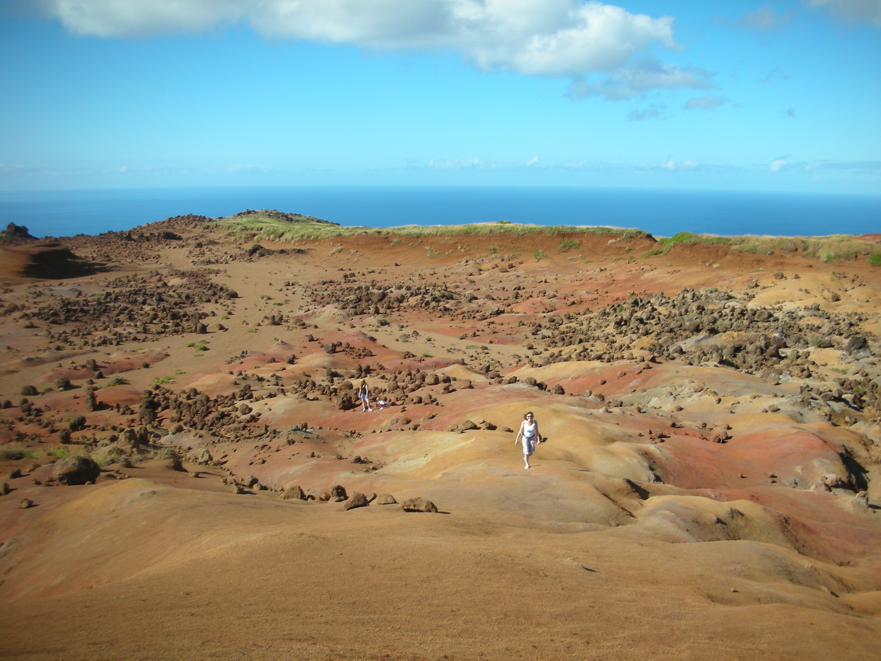 View of the „Garden of the Gods“, Lānaʻi, Hawaiʻi